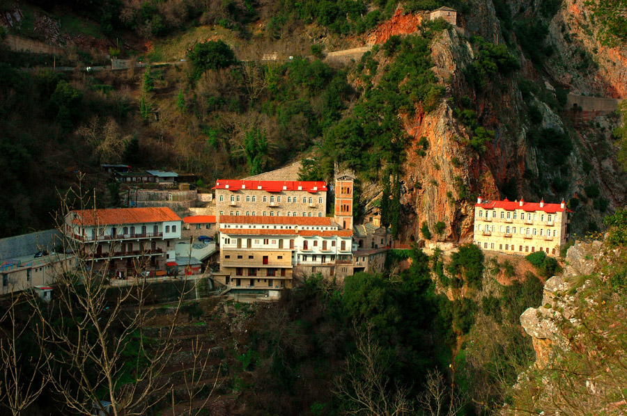 Proussos' Monastery, Greece